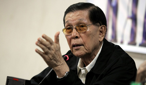 Senate President Juan Ponce Enrile answers questions from the media regarding the plot to assassinate former President Gloria Macapagal Arroyo, the Reproductive Health Bill, Charter Change and the execution of a Pinoy in China during the Kapihan sa Senado forum, December 1, 2011.